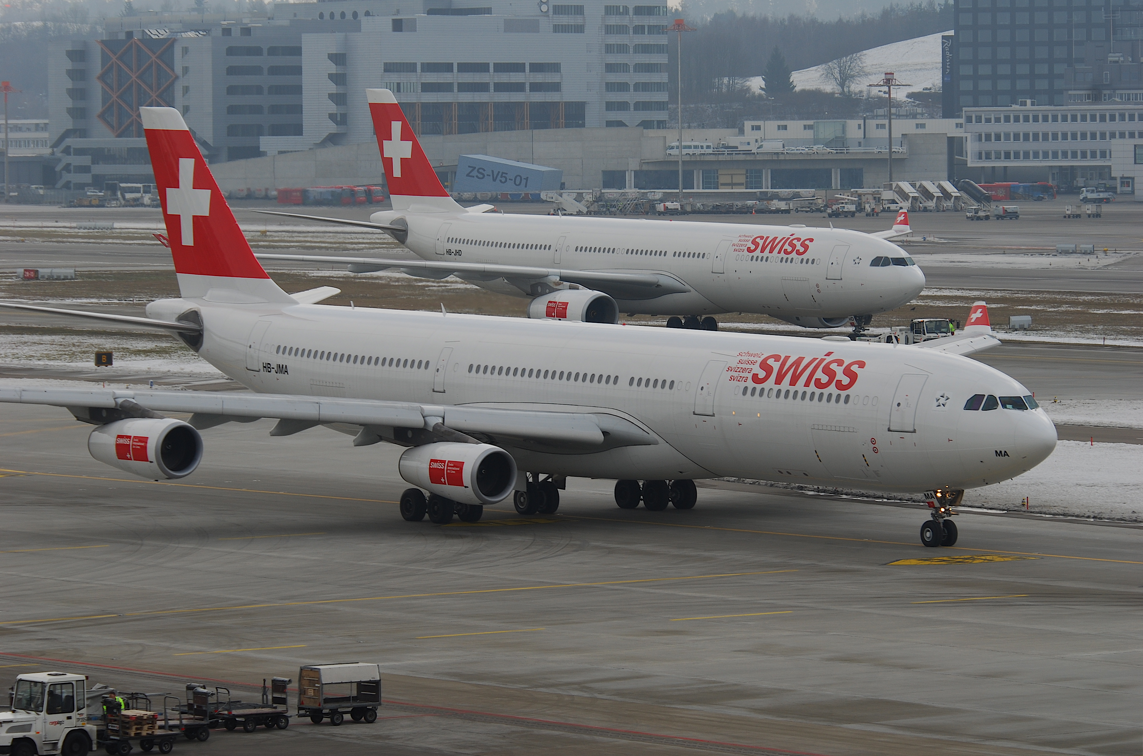 Swiss' mighty Airbus flagships, A340-300 and A330-300, moving in tandem.